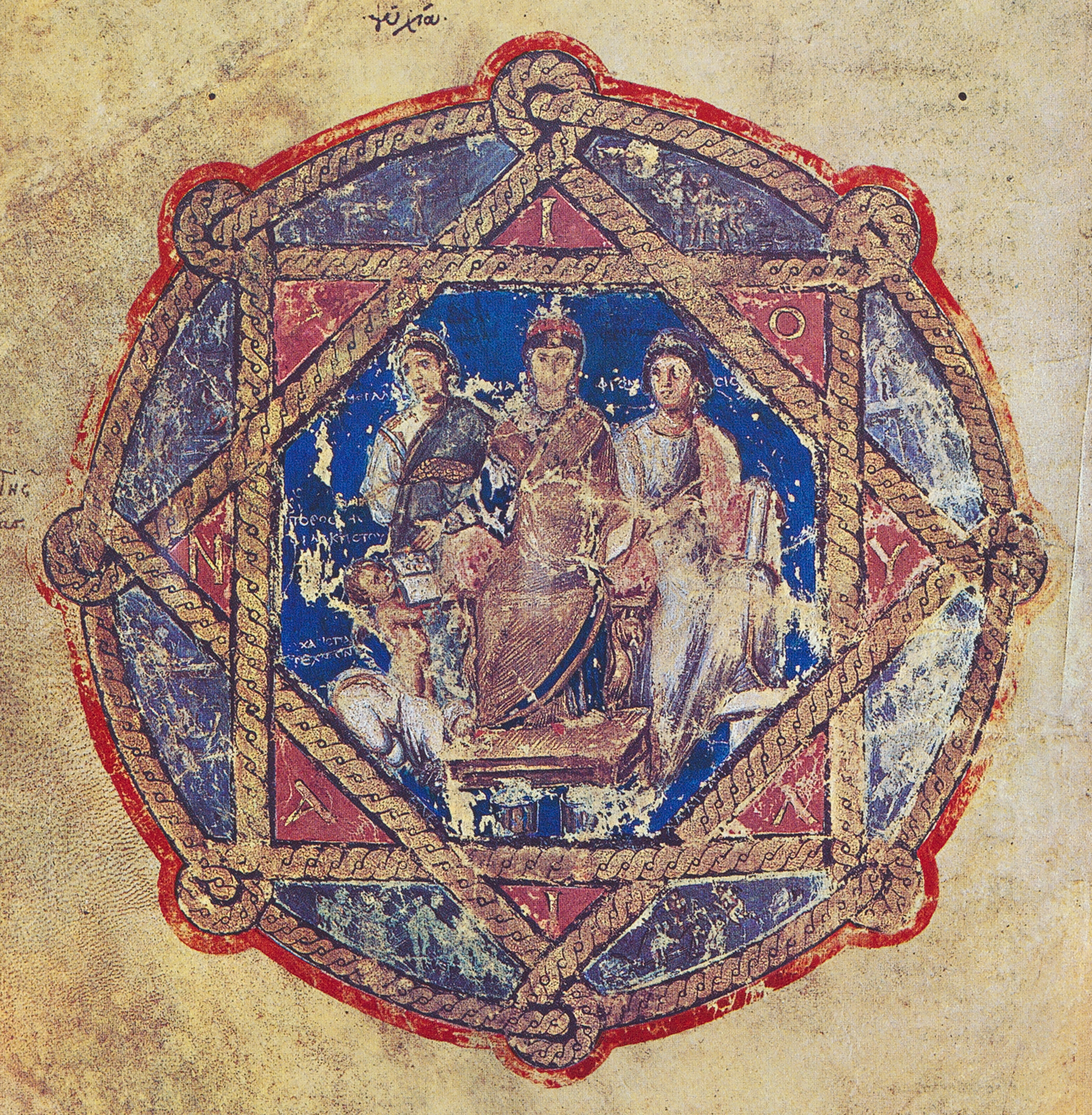 Donor portrait from the Vienna Dioscurides (fol 6. verso)